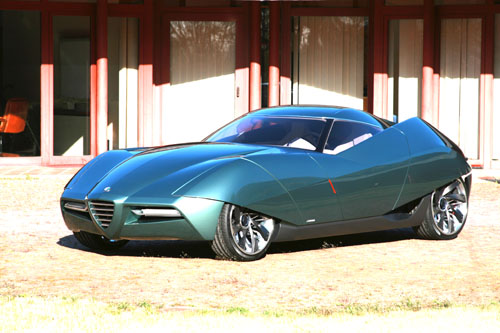 BERTONE 2008 BAT 11. The full scale model was unveiled "off-show" at Geneva Motor Show time. The running prototype is expected to be presented in 2009.